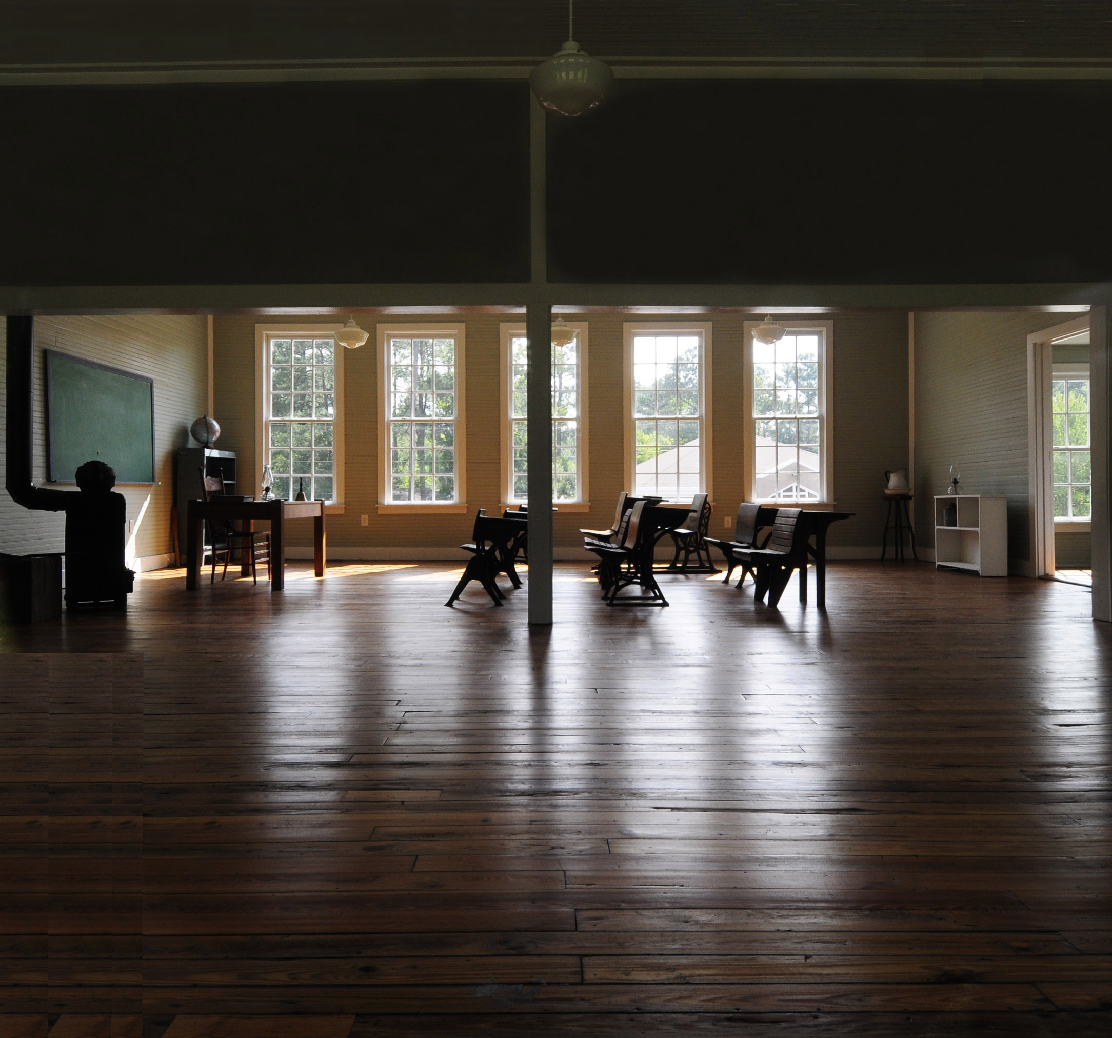 Pine Grove Rosenwald School